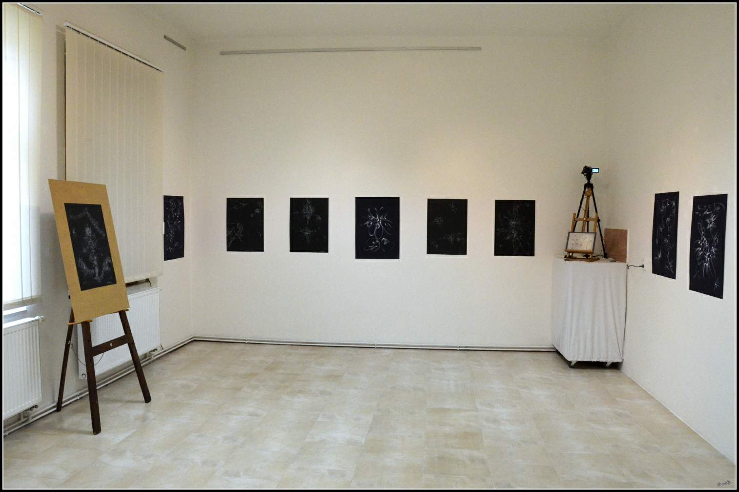 Part of exhibition in Emil Juliš Gallery